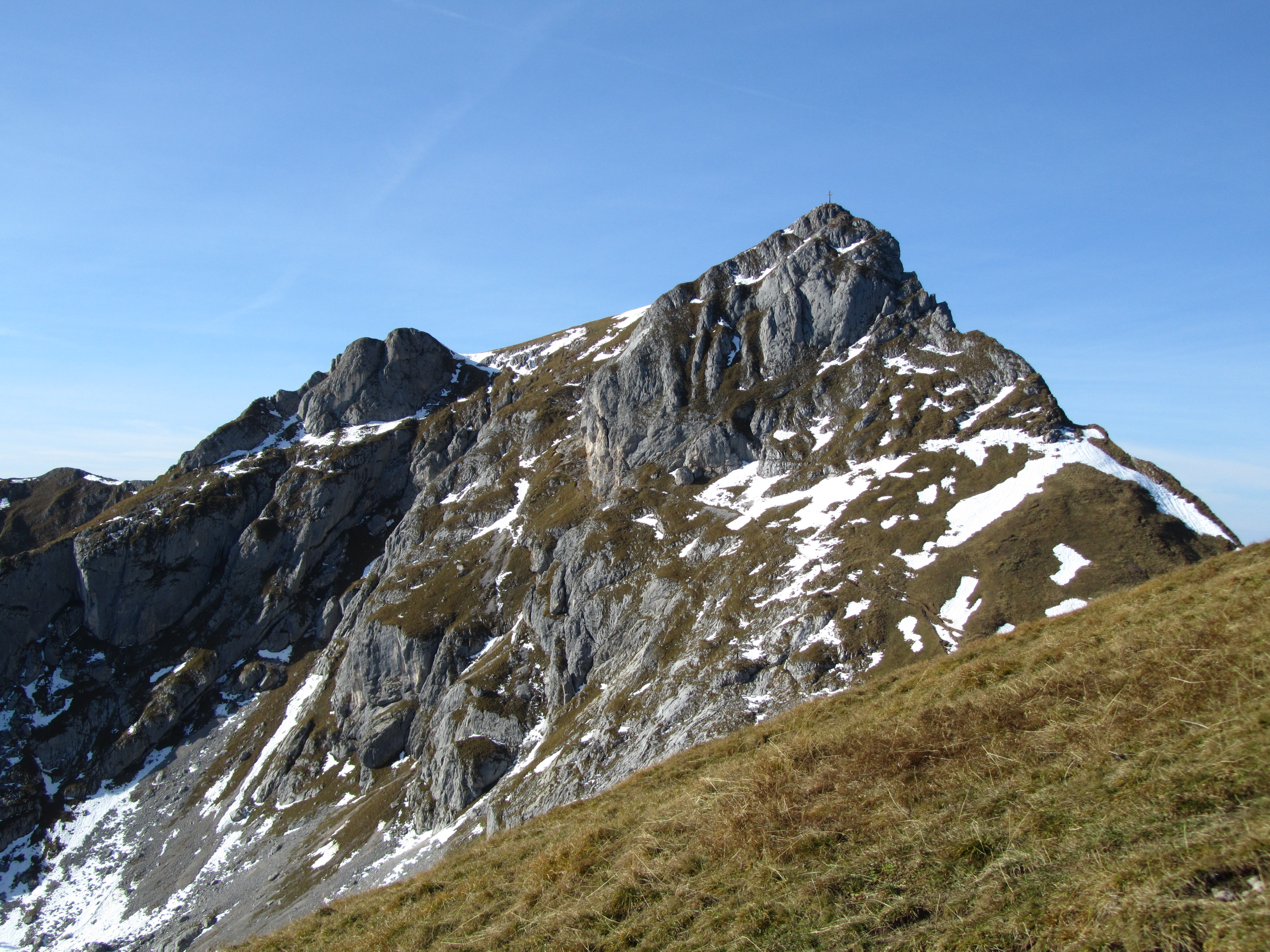 Hochiss (2299 m) from southeast, seen during descent from Spieljoch (2236 m)